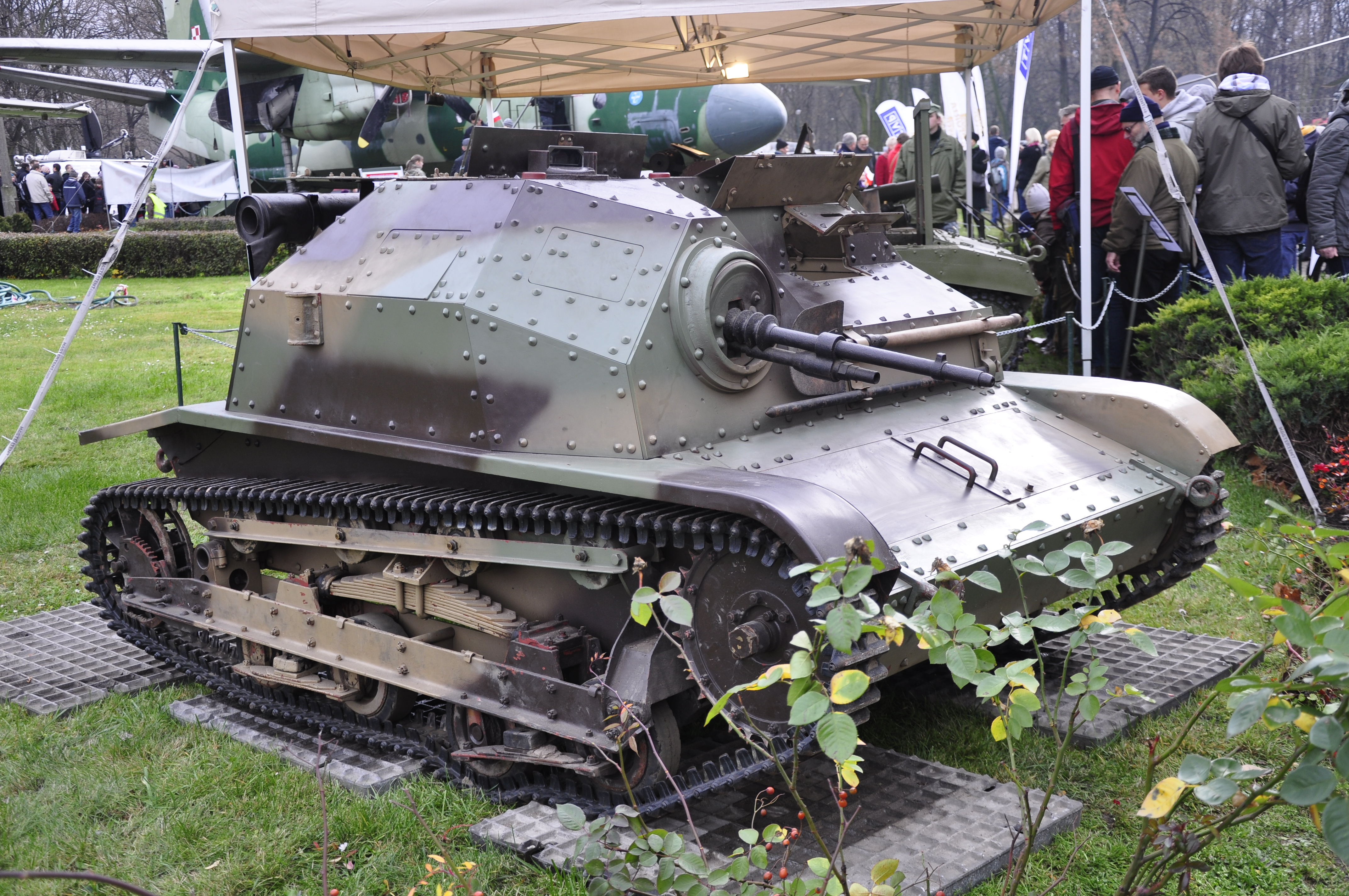 Polish Army Museum, tank.